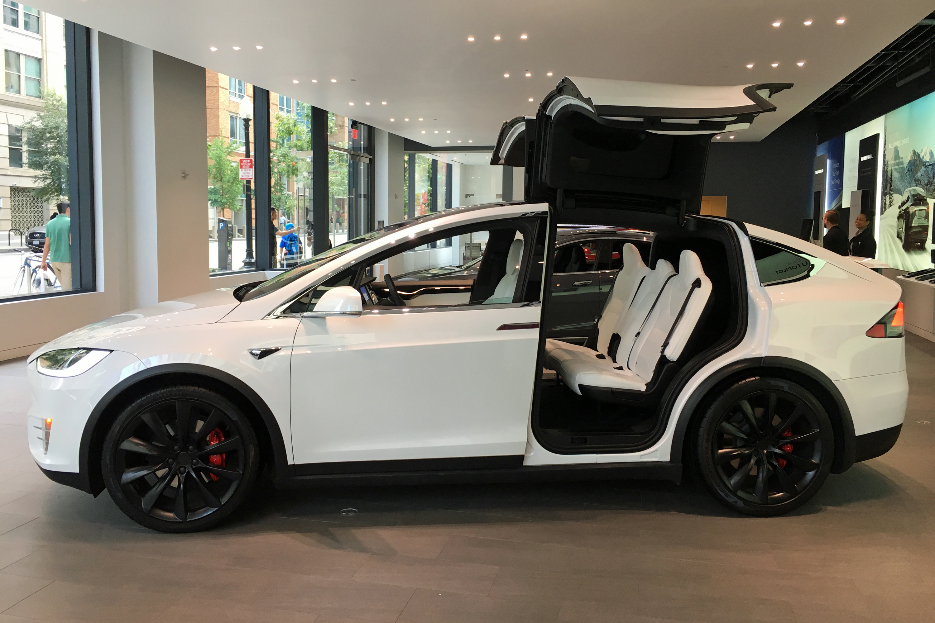 Tesla Model X at Tesla Store, downtown Washington D.C.